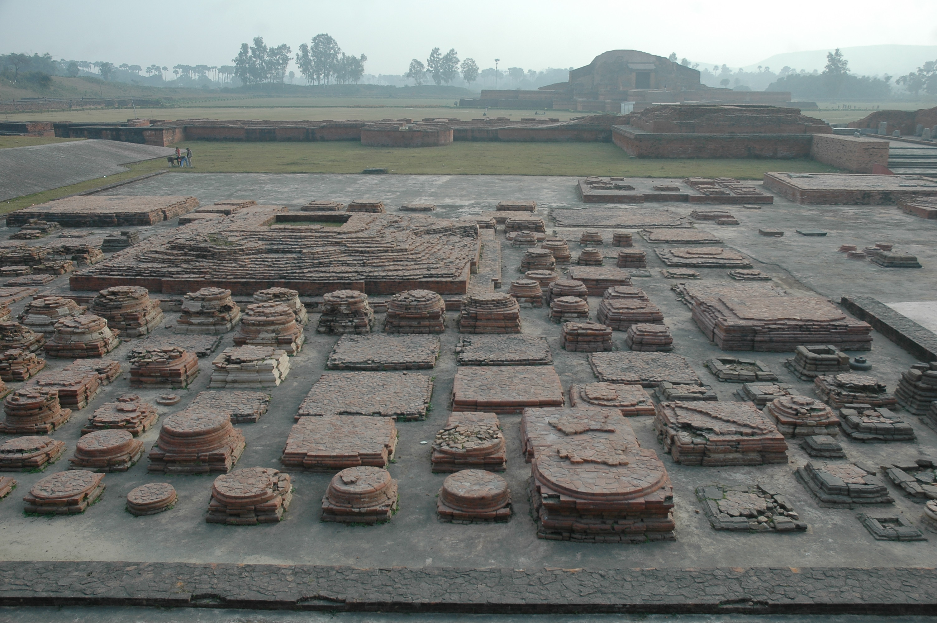 It is believed that these structures were constructed if the wish of the individual was fulfilled.